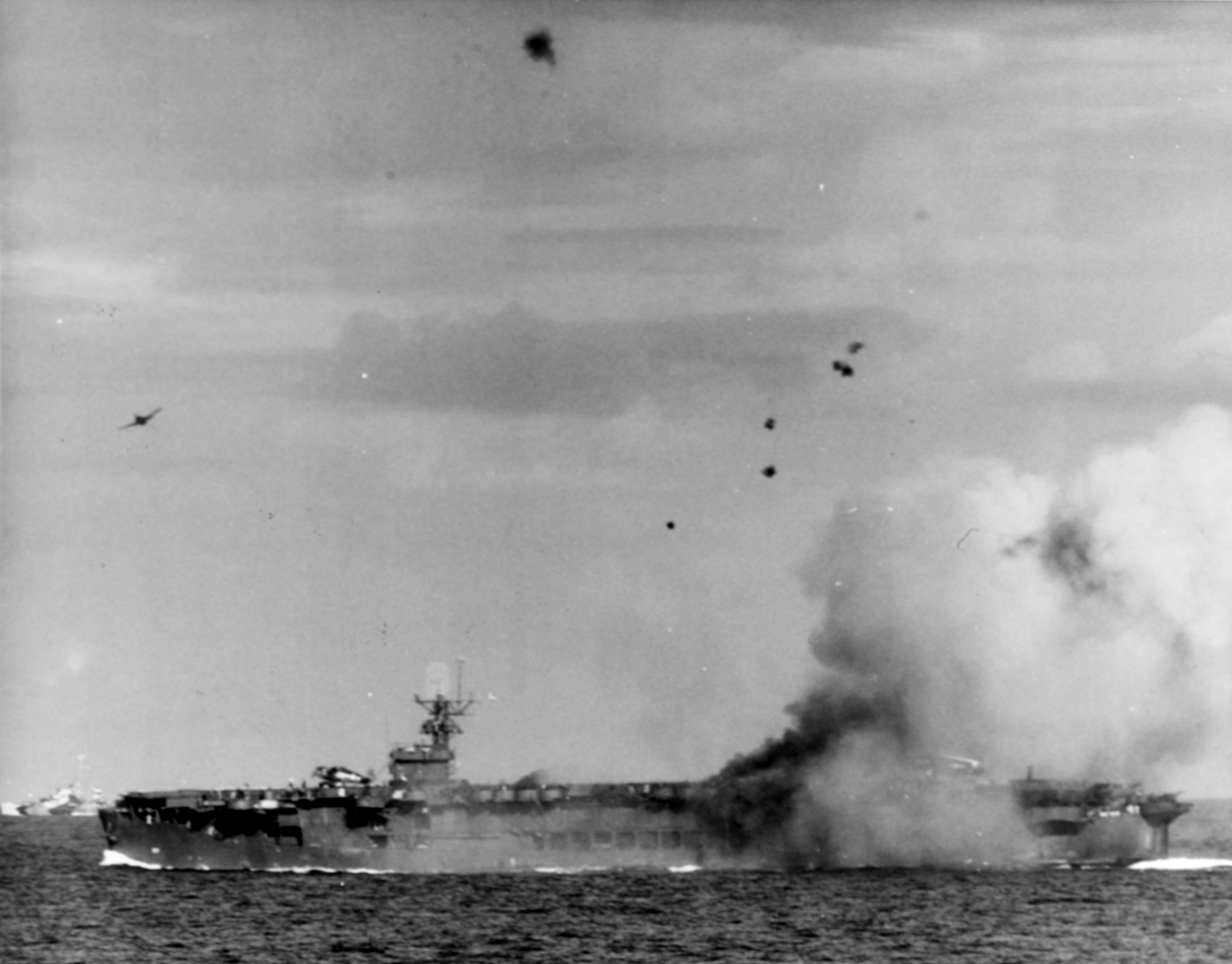 A Japanese Mitsubishi A6M kamikaze suicide plane hits the U.S. Navy escort carrier USS Suwannee (CVE-27) on 25 October 1944. Note the Grumman F6F Hellcat completing pullout after chasing the kamikaze plane. The photo was taken by the USS Petrof Bay (CVE-80) Air Department.